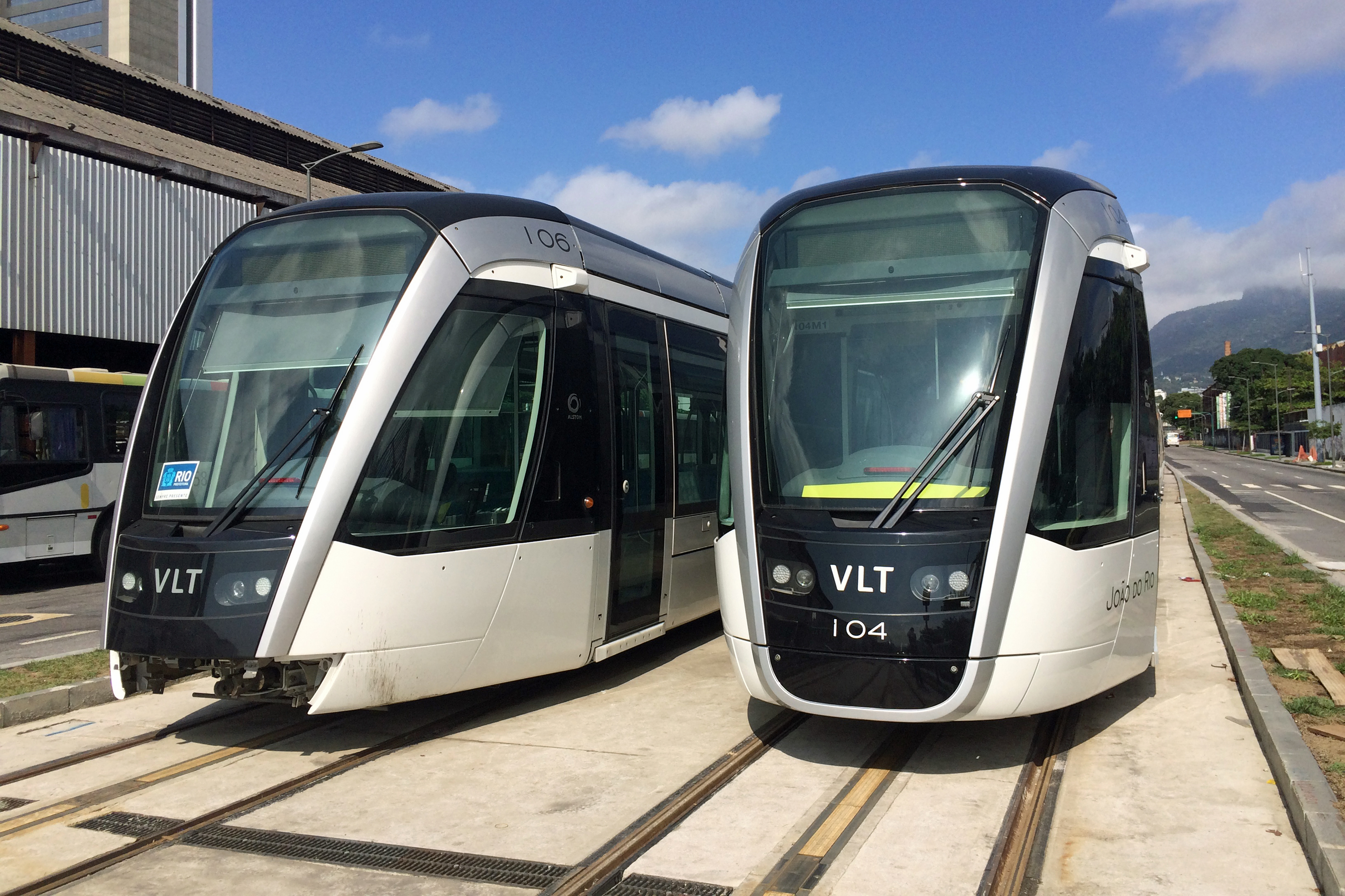 Trams ready to begin operations, LRT Rio de Janeiro, Brazil Linha Rodoviária - Praça Mauá - Aeroporto Santos Dumont